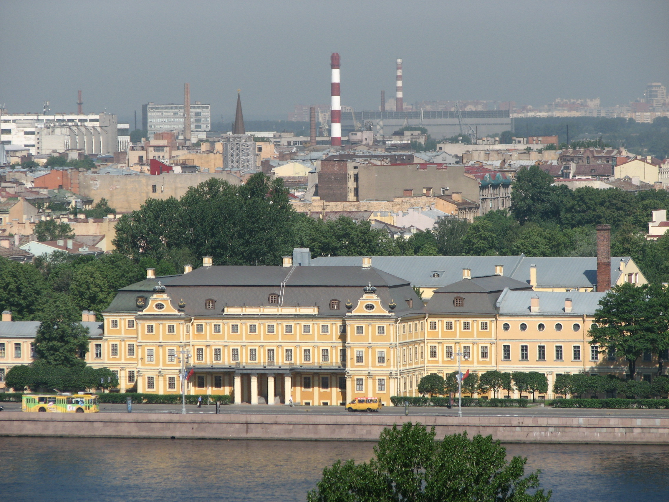 Saint Petersburg (Russia), Menshikov Palace. Kind from height of a Colonnade of a Saint Isaac's Cathedral.